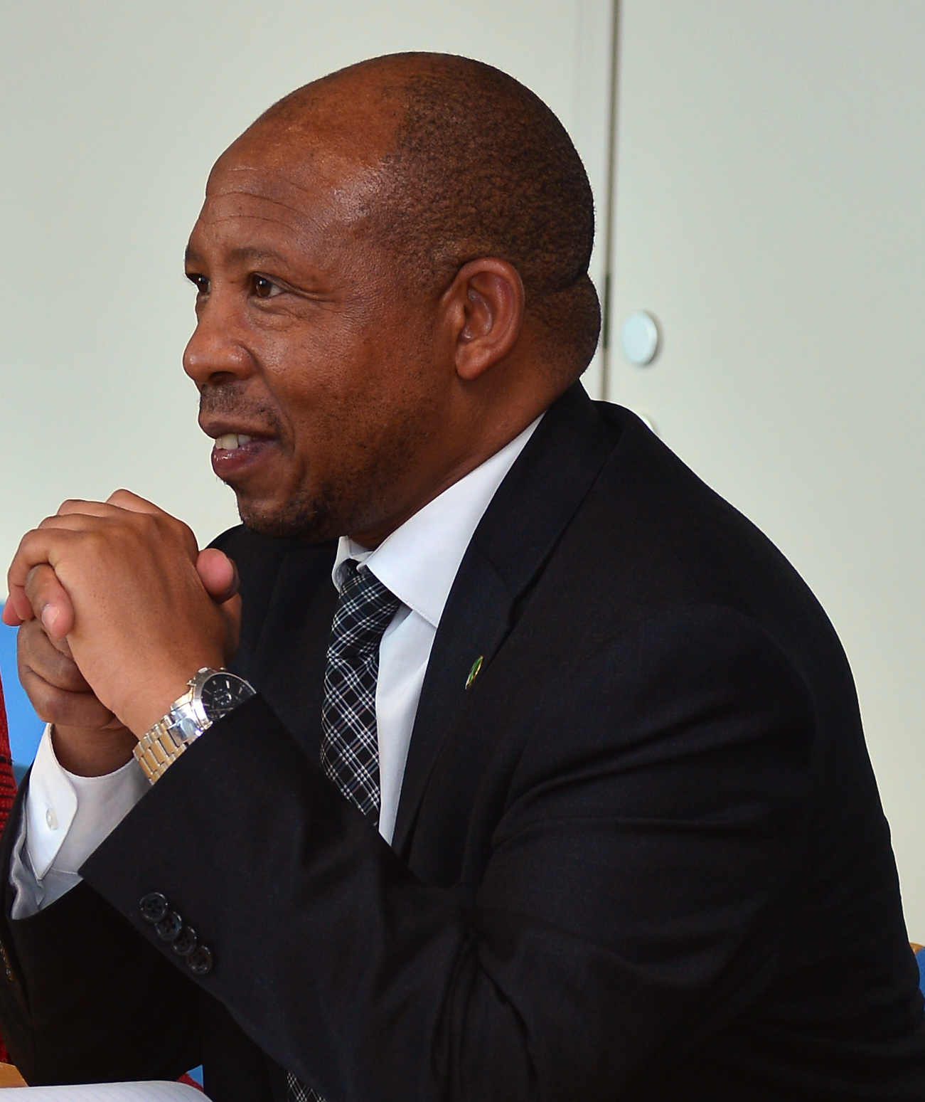 On 2 September 2013, H.E. Moeketsi Majoro, Minister of Development Planning, Kingdom of Lesotho, met with Senior Officials of the IAEA during the Minister's visit to the IAEA headquarters in Vienna, Austria. Photo Credit: Dean Calma / IAEA